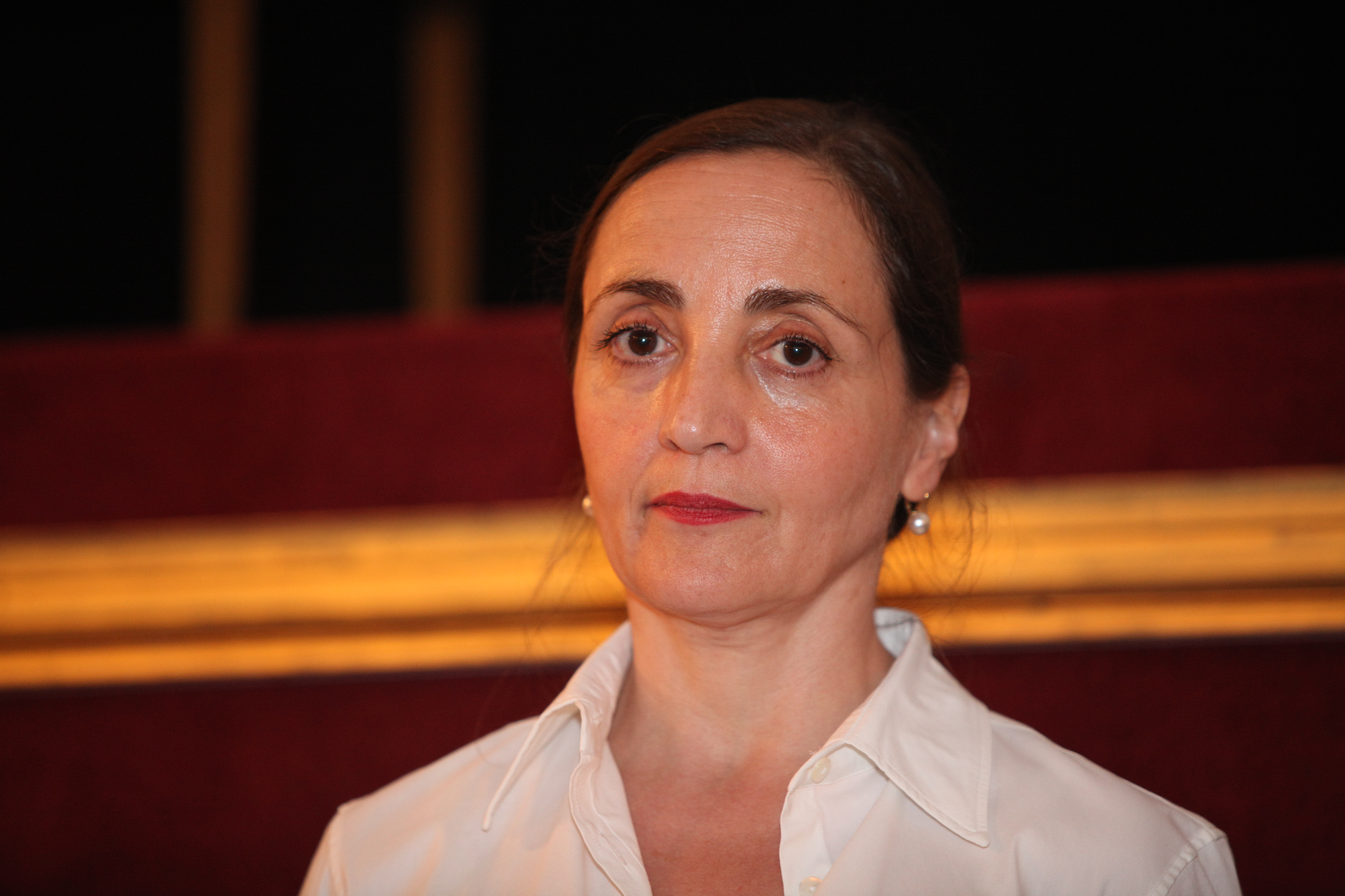 French actress Dominique Blanc at 44th Karlovy Vary International Film Festival